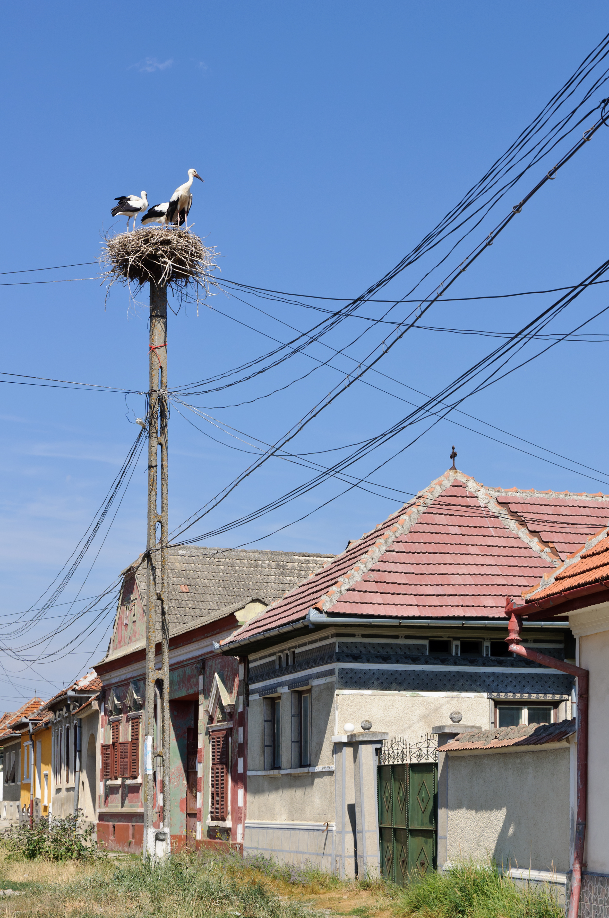 White Storks (Ciconia ciconia) in their nest on an utility pole in Vlădeni, Romania (Braşov County, Transylvania, Romania)